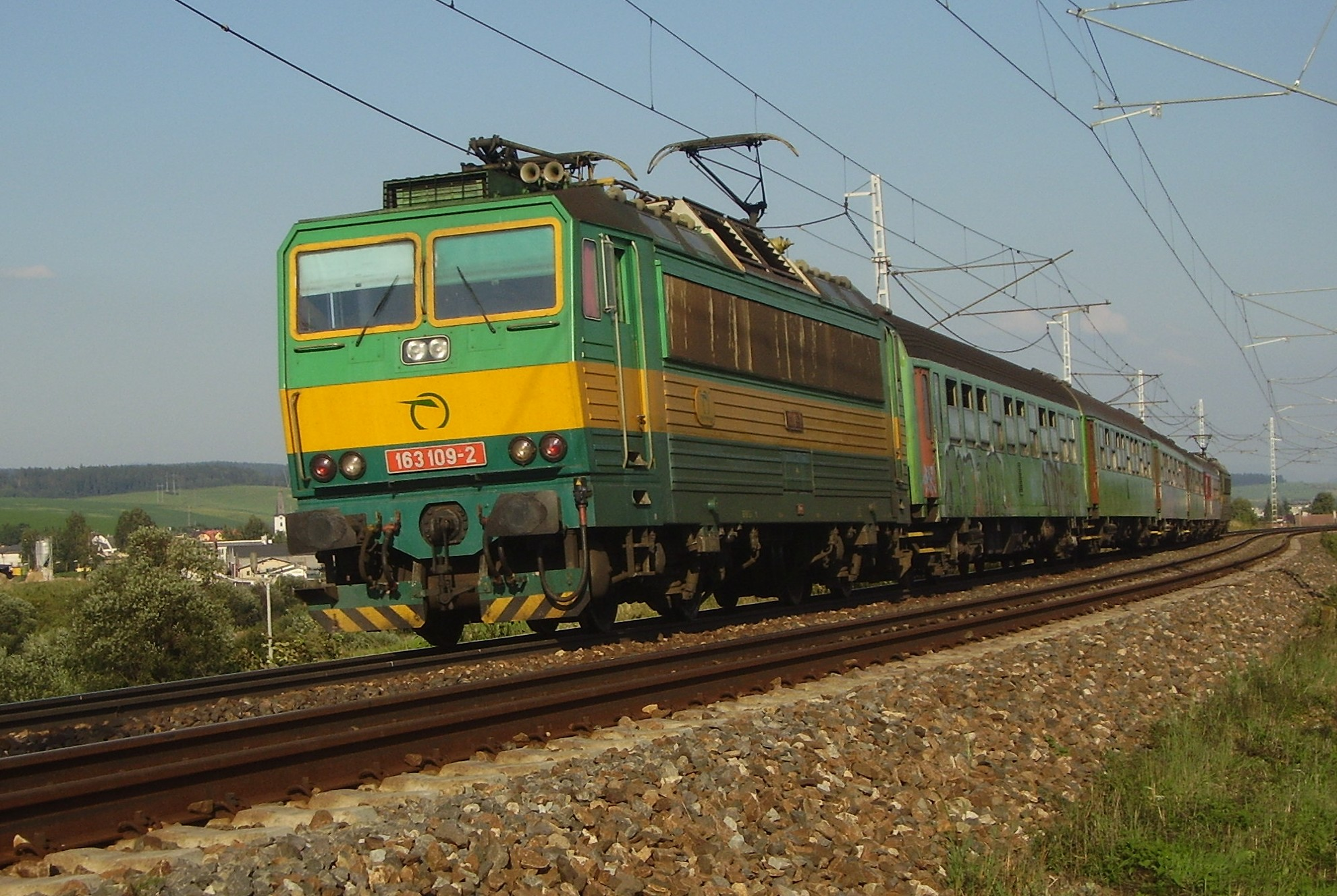 Locomotive Class 163 near hláska Čingov